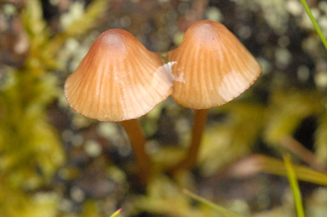 Mycena sect. Rubromarginatae from Commanster, Belgium. The determination of the species shown in this picture has been verified.